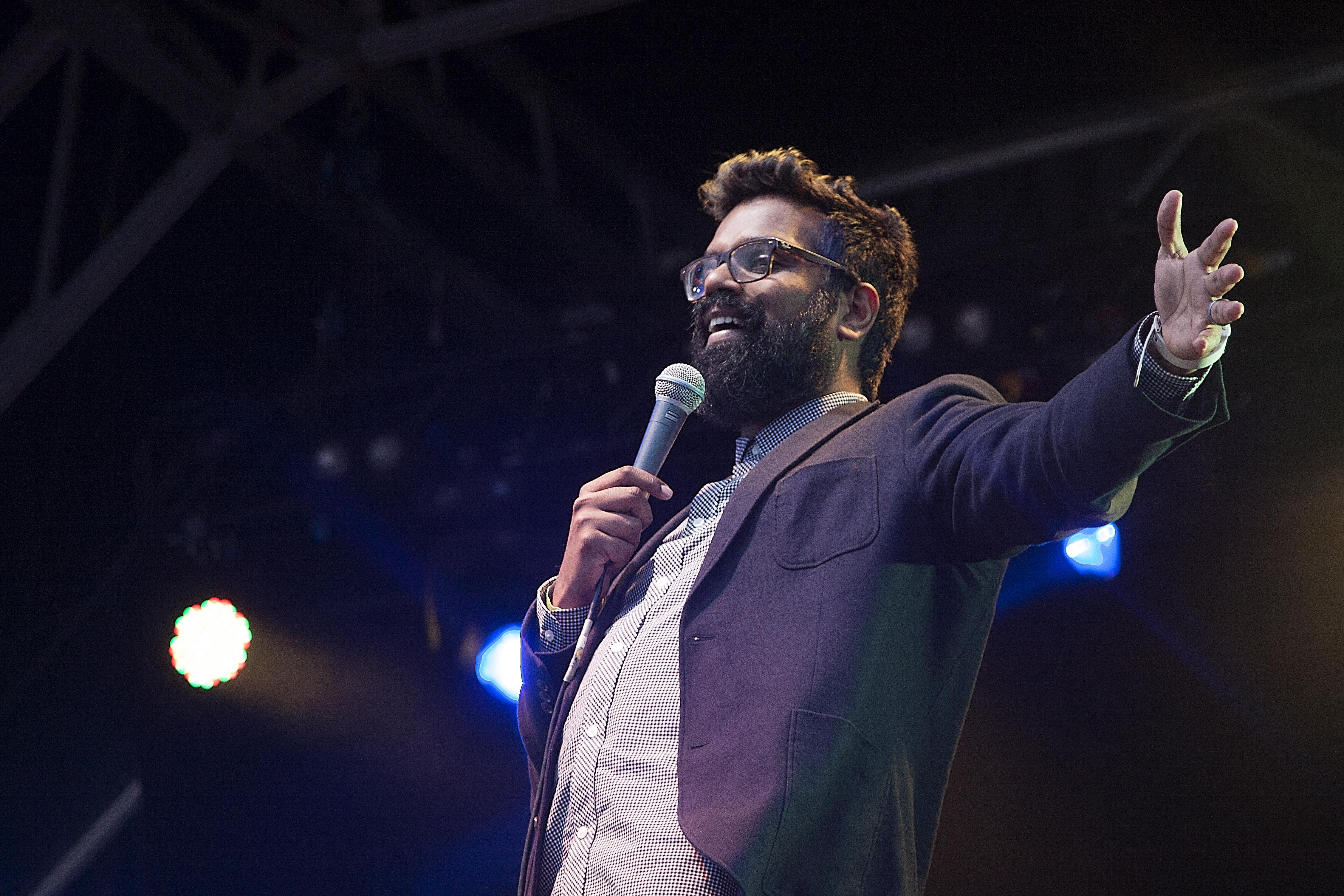 Romesh Ranganathan